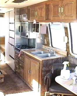 Description goes here.